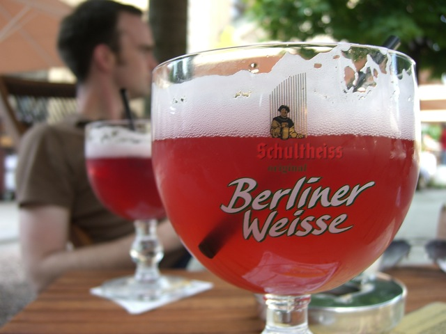 A strange beer that the germans add syrup too. Very good on a hot day.